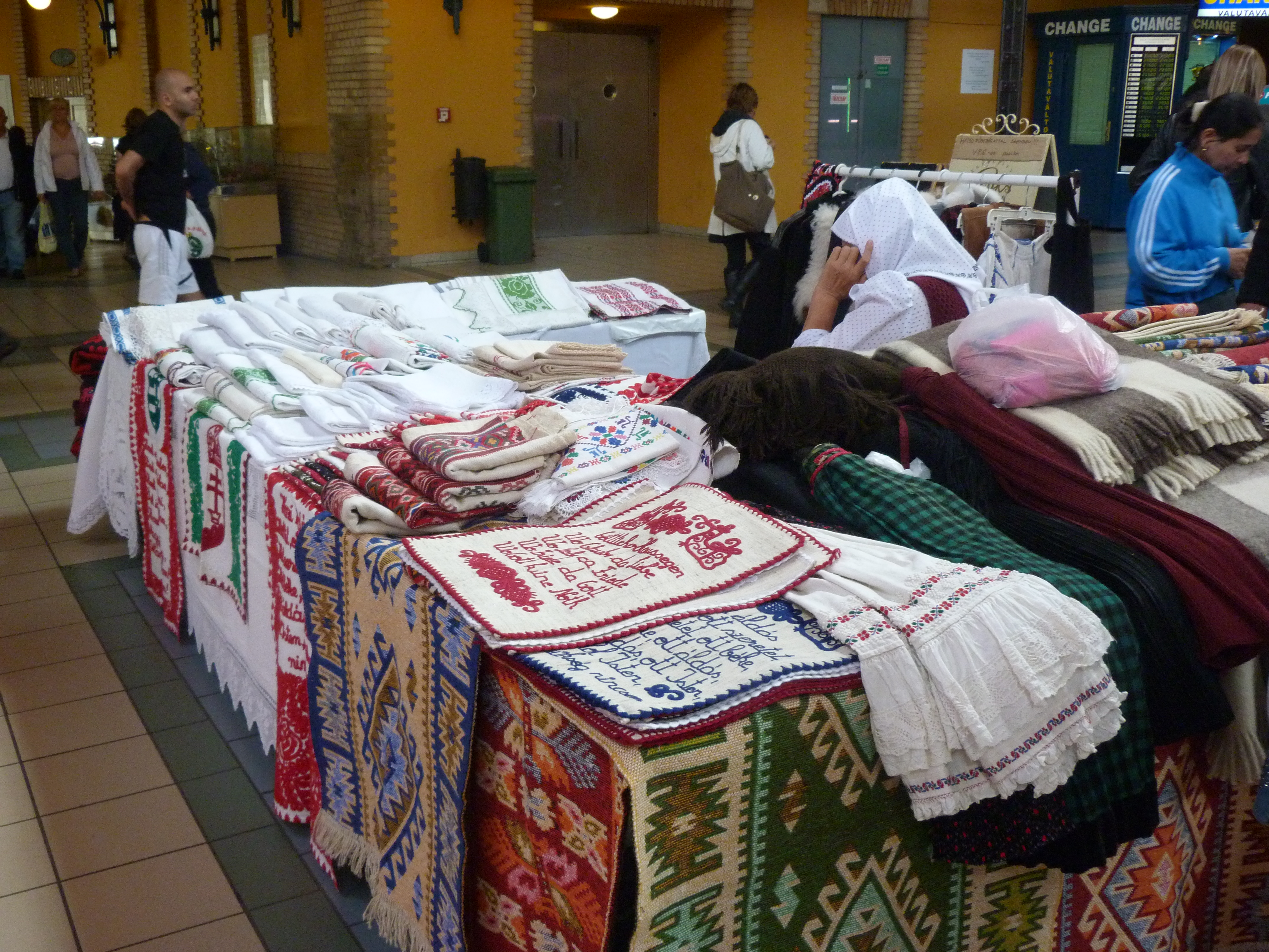 Live on the 12th of September, 2014. Budapest, Great Market Hall. Székely Land in the Great Market Hall. Goods of Székely Land. Legends of Székely Land. Map of Székely Land. ©© Derzsi Elekes Andor, Budapest 2014, You are authorised to use these photos and vids under Creative Commons – even for commercial, for profit purposes. Photos must be attributed to Derzsi Elekes Andor. All of the photos and vids in the Metapolisz DVD line are under Creative Commons and can be used even for commercial – for profit – purposes. Recommended Citation Derzsi Elekes Andor: Metapolisz DVD line